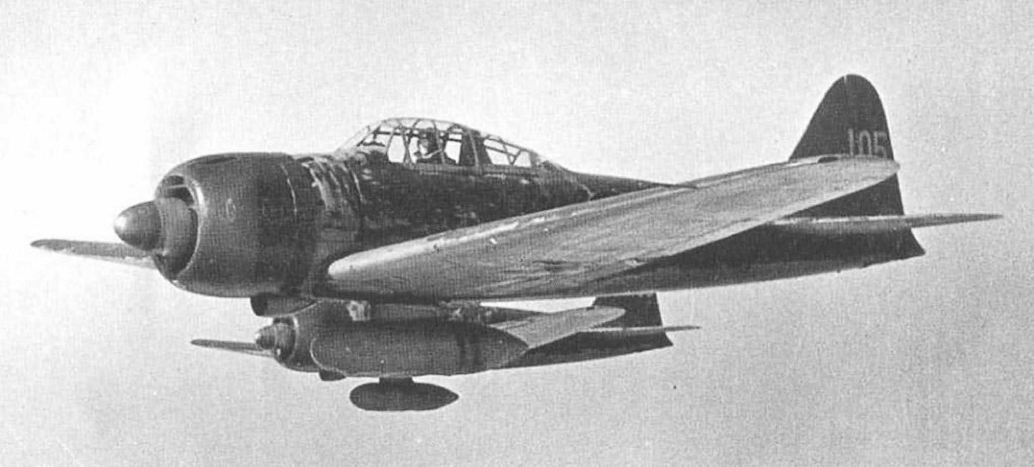 Nishizawa in his Mitsubishi Zero A6M3a Model 22, tail code UI-105, May 7, 1943.